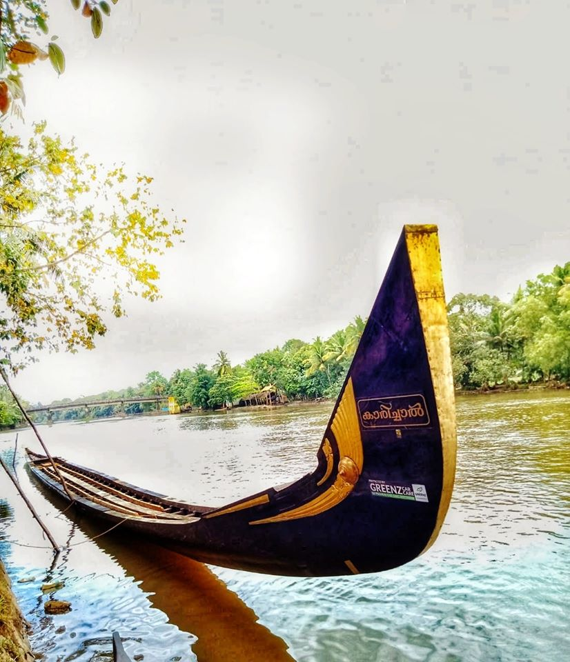 Karichal Chundan is snake boat which is owned by the people in Karichal village.